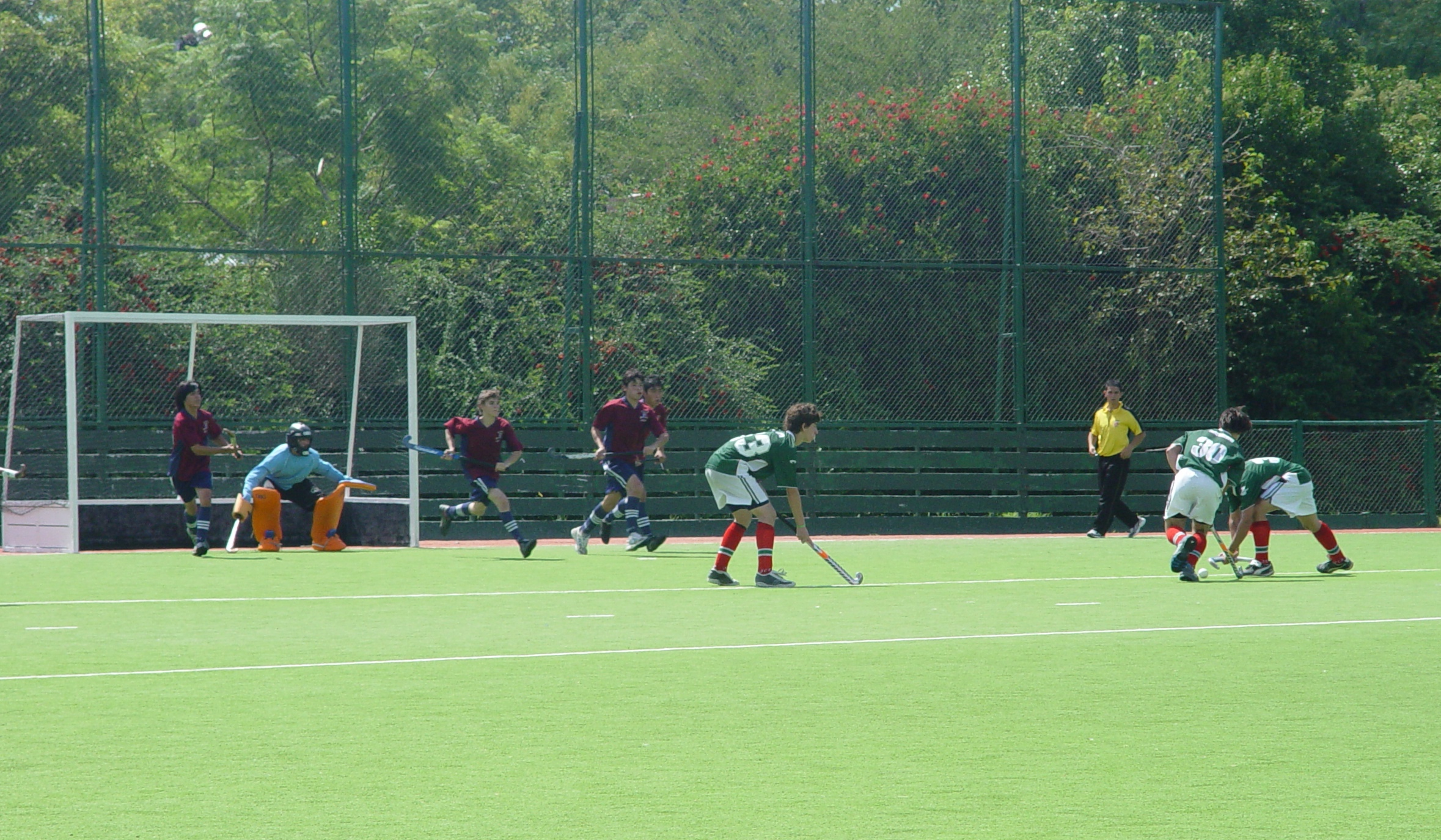 Jockey Club Rosario - BSCS